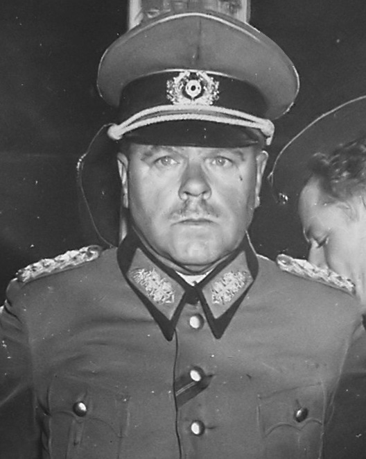 Anton Dostler ARC Identifier: 531326 German General Anton Dostler is tied to a stake before his execution by a firing squad in the Aversa stockade. The General was convicted and sentenced to death by an American military tribunal. Aversa, Italy., 12/01/1945